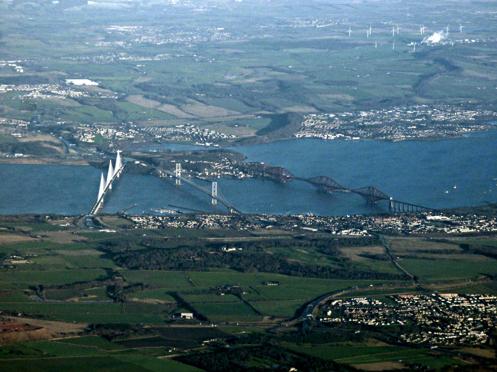 The Forth bridges from the air